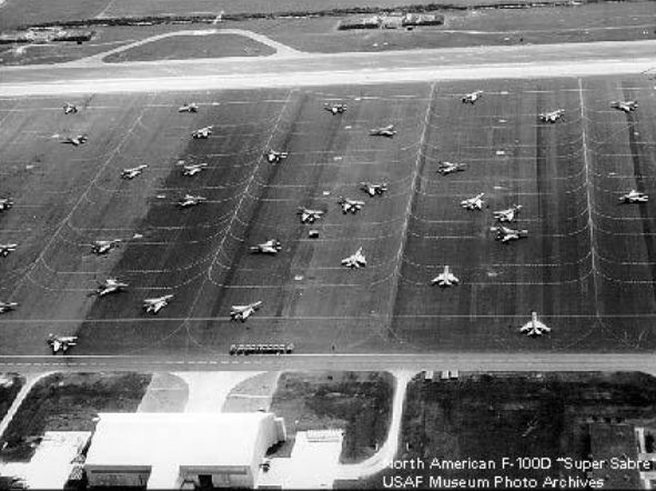 F-100s dispersed on the flightline at Homestead AFB, Florida during the Cuban Missile Crisis. (USAF Photo courtesy of the National Museum of the Air Force)